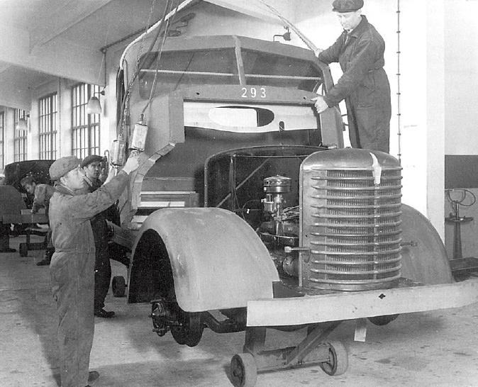 Second last Sisu S-22 under construction in Yhteissisu factory (later VAT).